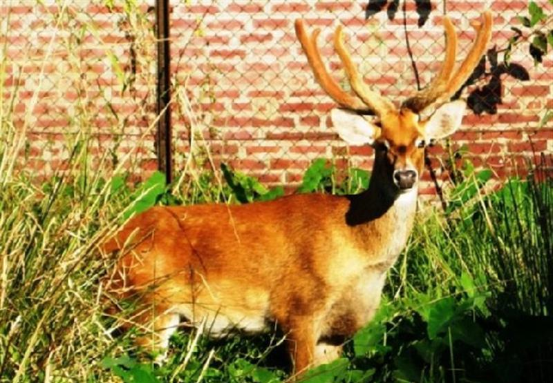 Sangai-Brow Antlered Deer (Rucervus eldi eldi)